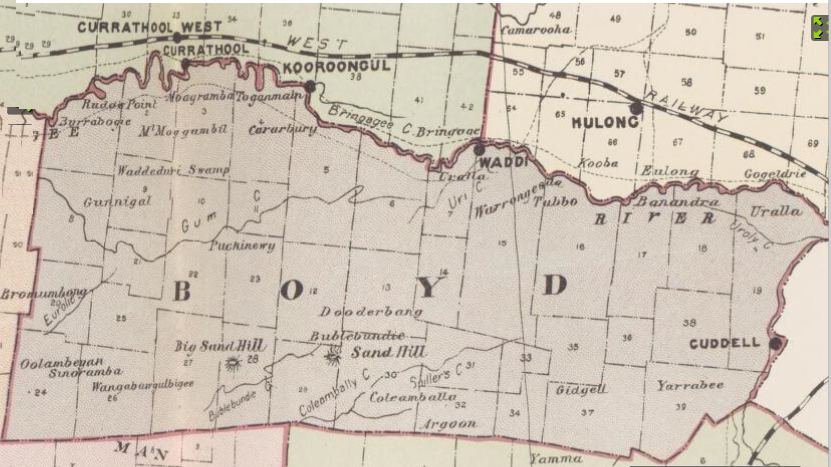 Cite error: Closing missing for tag